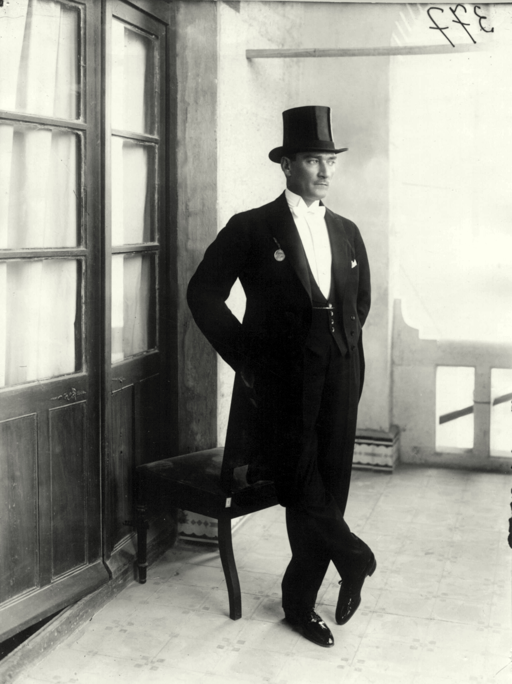 The first President of the Republic of Turkey Mustafa Kemal Atatürk in a top hat and white tie